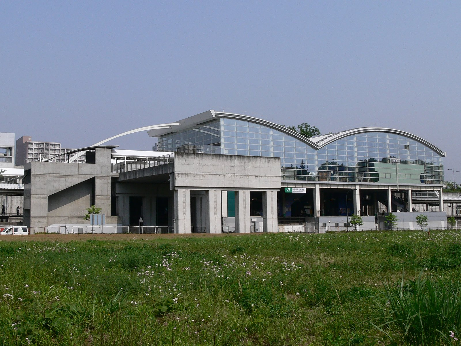 The east side of Hachioji-Minamino Station on the Yokohama Line in Tokyo, Japan